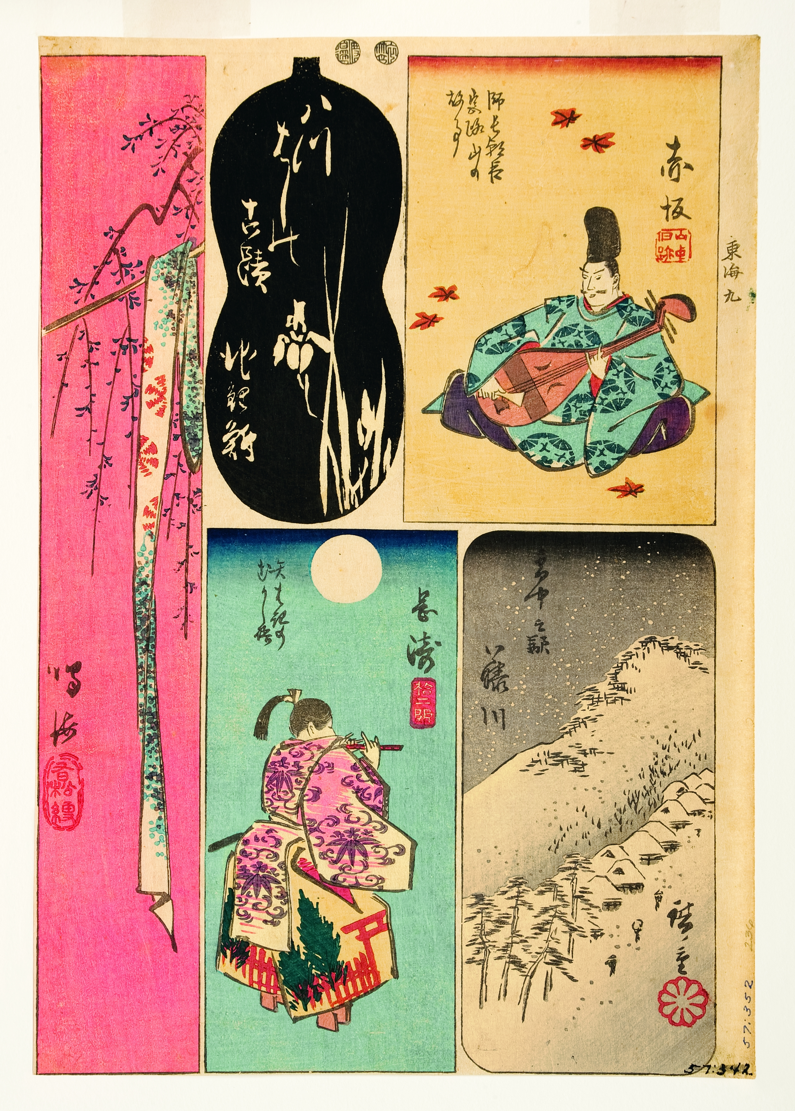 Accession Number: 1957.352 Display Artist: Utagawa Hiroshige Display Title: "Akasaka, Fujikawa, Okazaki, Chiryu, Narumi" Series Title: Scrapbook Pictures of the Tokaido Road Suite Name: Tokaido harimaze zue Creation Date: ca. 1850 Height: 13 11/16 in. Width: 9 1/2 in. Display Dimensions: 13 11/16 in. x 9 1/2 in. (34.77 cm x 24.13 cm) Publisher: Ibaya Senzaburo (?) Credit Line: Bequest of Mrs. Cora Timken Burnett Collection: The San Diego Museum of Art